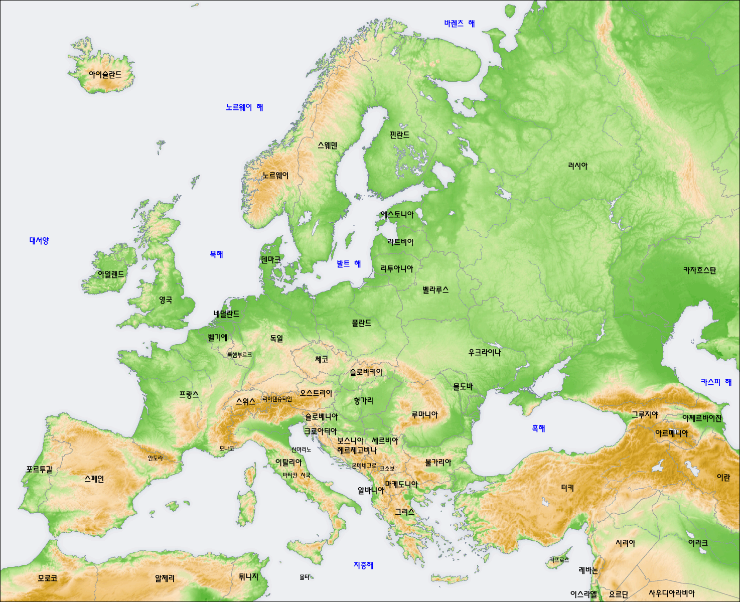 Europe topography map